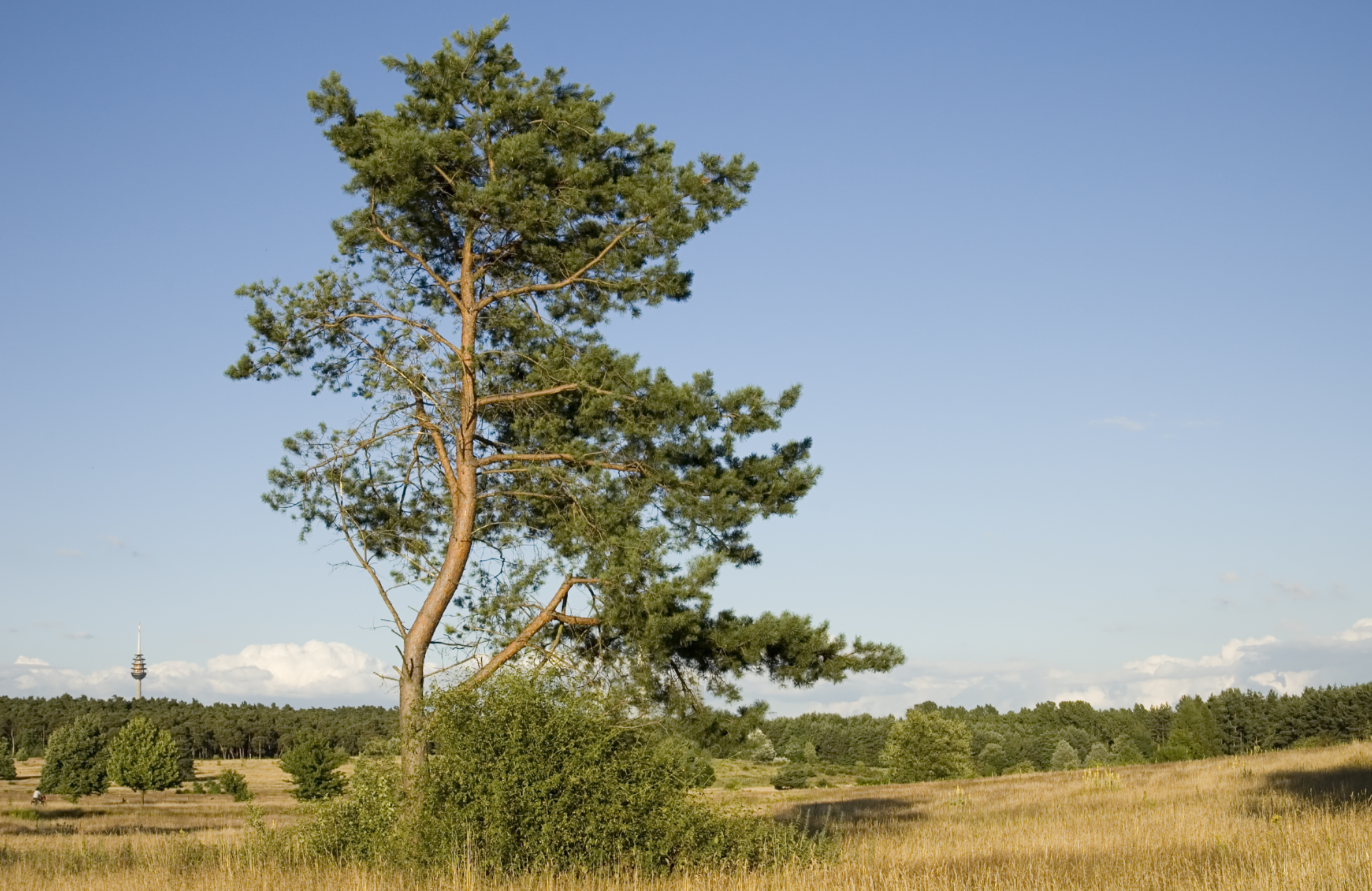 A tree in the Nature reserve Hainberg near Oberasbach, Bavaria, Germany